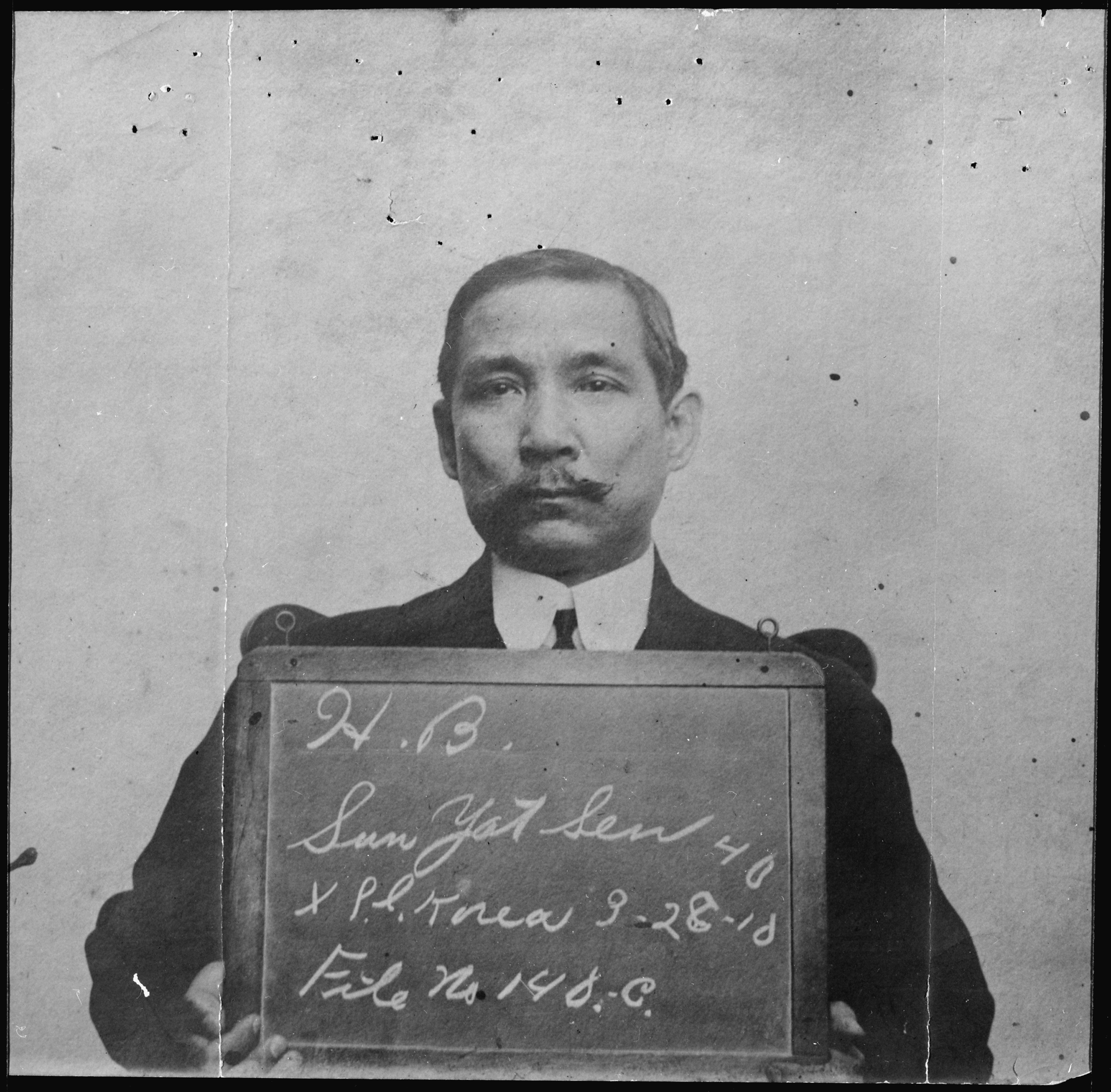 Scope and content: Immigration agency investigative case files related to the Chinese Exclusion Acts (1882-1943) frequently contain photographs used to identify the persons covered in the files. This government-originated photograph is from the only currently known immigration case file for Dr. Sun Yat Sen, first President of the Republic of China, known as "the Father of modern China. General notes: Exhibit history: "American Originals," December 1997 -December 1998 (possibility it will be taken off sooner).